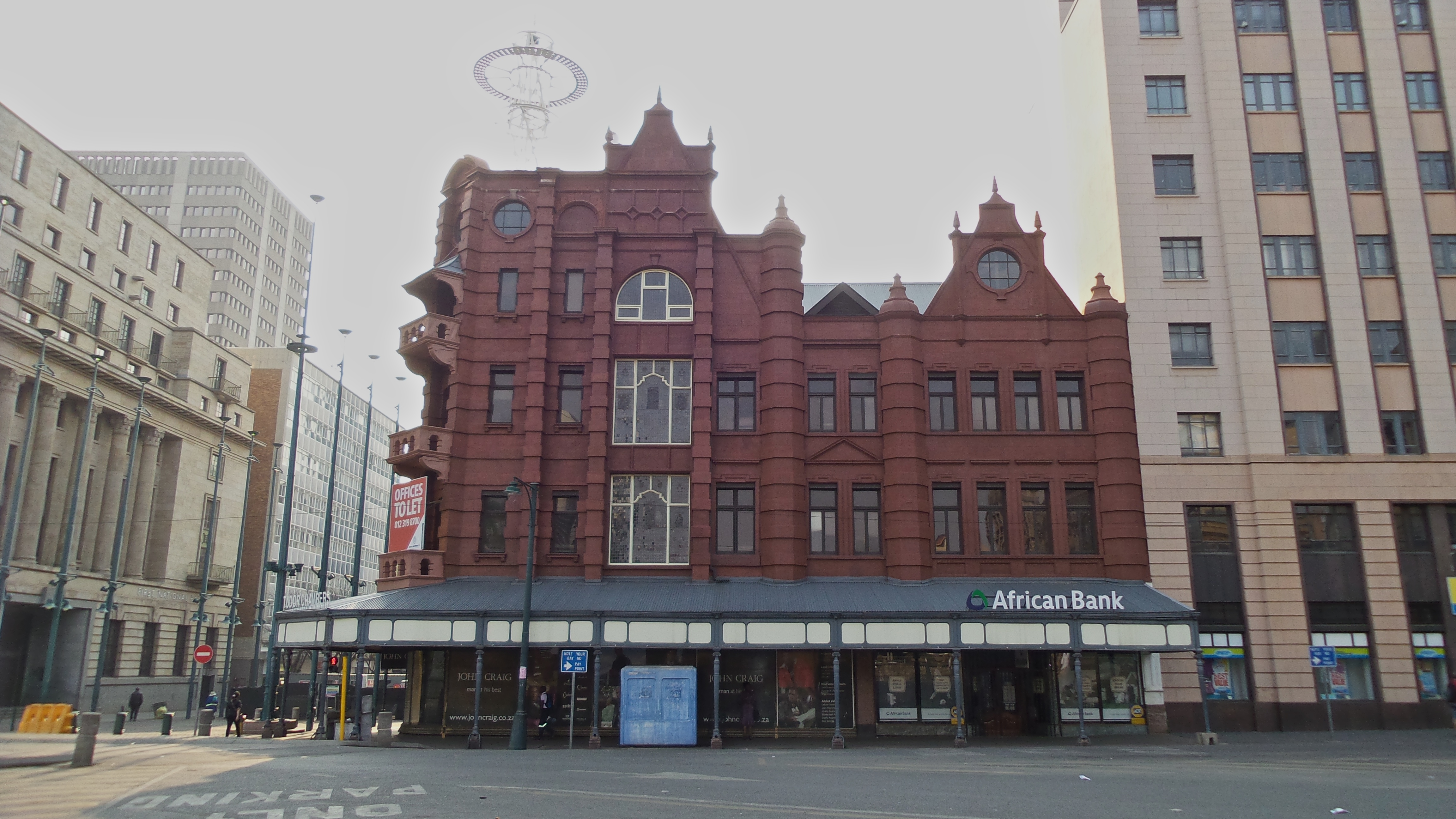 Tudor Chambers, Church Square, Pretoria This media shows a South African Protected Site with SAHRA file reference 9/2/258/0074.